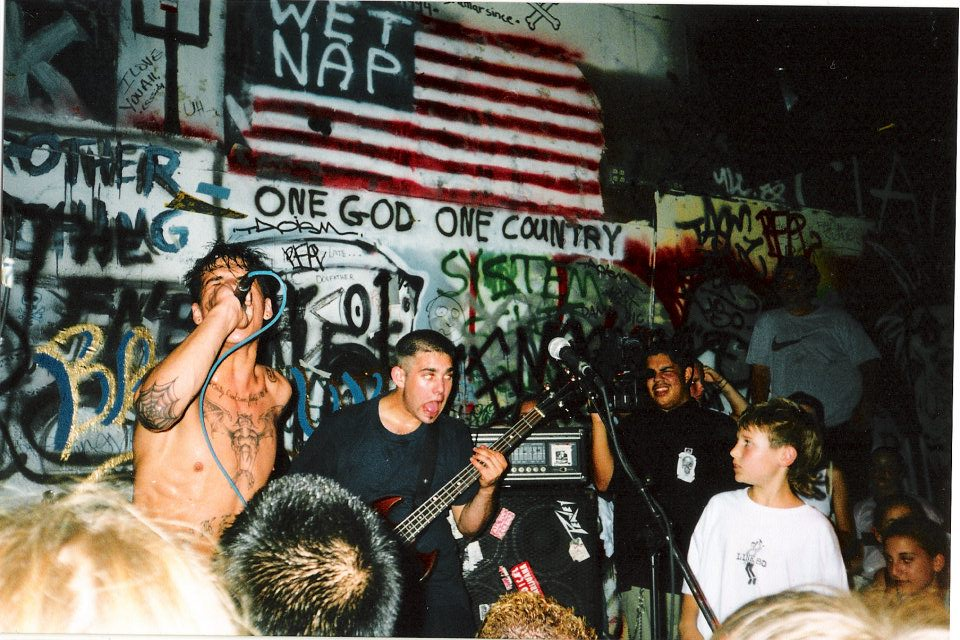 Nick Traina performing at 924 Gilman Street with Link 80.